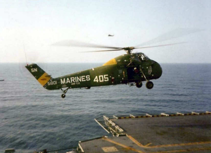 A U.S. Marine Corps Reserve Sikorsky UH-34D Seahorse helicopter (BuNo 145801) from Marine Medium Helicopter Squadron HMM-772 operating from the amphibious assault ship USS Guadalcanal (LPH-7). These ship-to-shore flights between the Guadalcanal and Marine Corps Base, Camp Lejeune, North Carolina (USA), represented the last amphibious exercise by the Marine Corps employing the UH-34 helicopter. The UH-34D 145801 was retried on 17 December 1971.